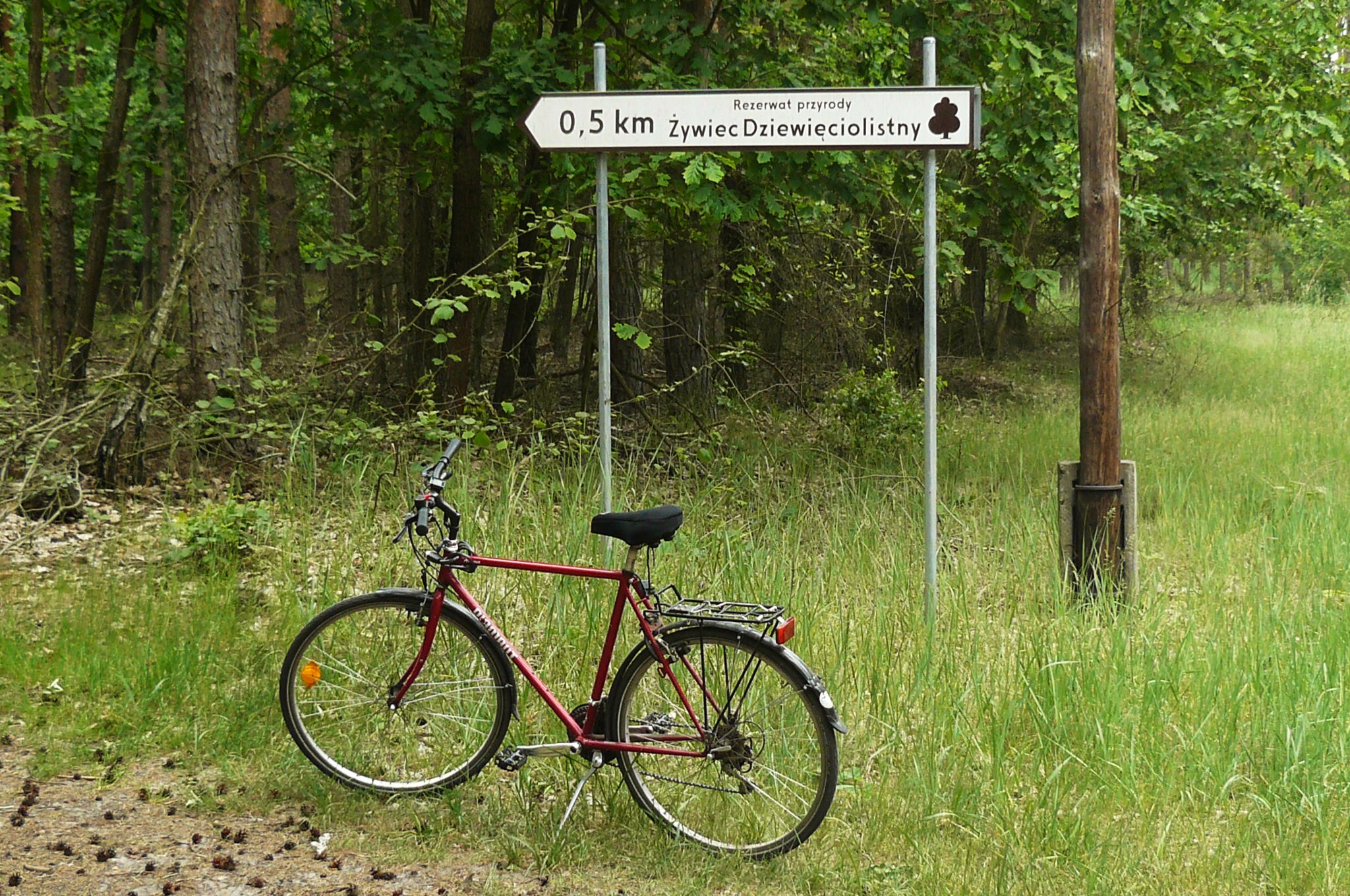 Directional road sign [Znak E-11], Nature reserve Żywiec Dziewięciolistny, Poland.